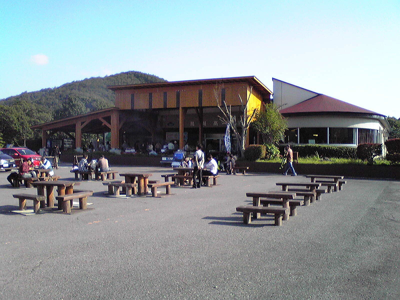 Michinoeki Hatoriko Kogen in Ten-ei Village, Fukushima Prefecture, Japan